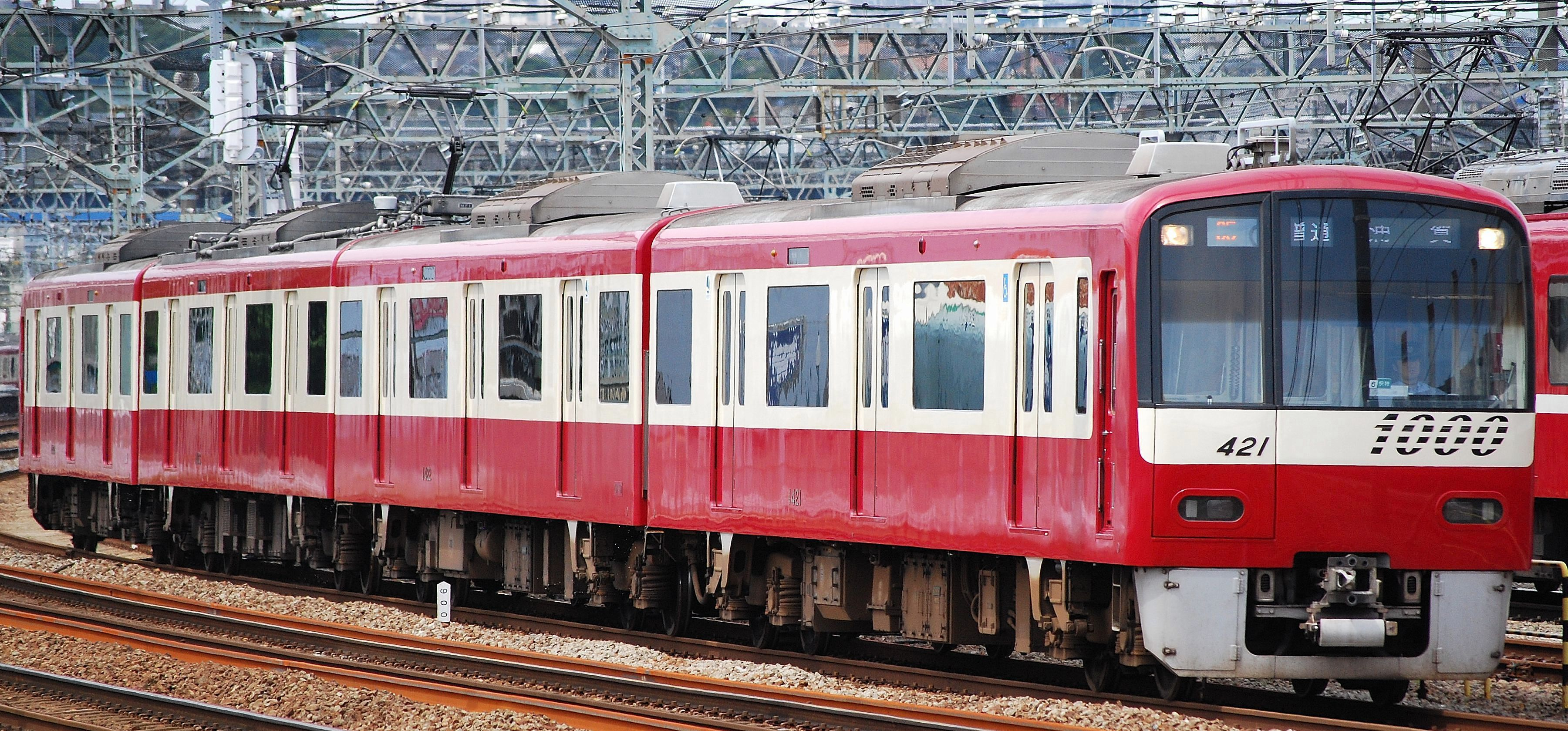 Keikyu N1000 series EMU 3rd-batch 4-car set 1421